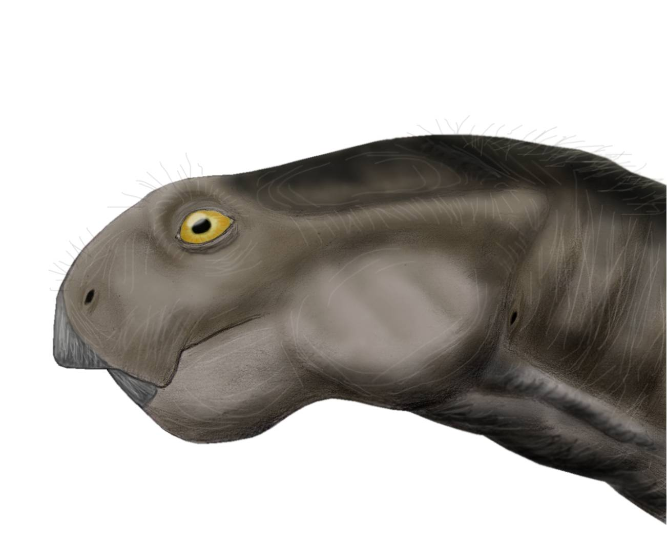 Life restoration of Oudenodon bainii.